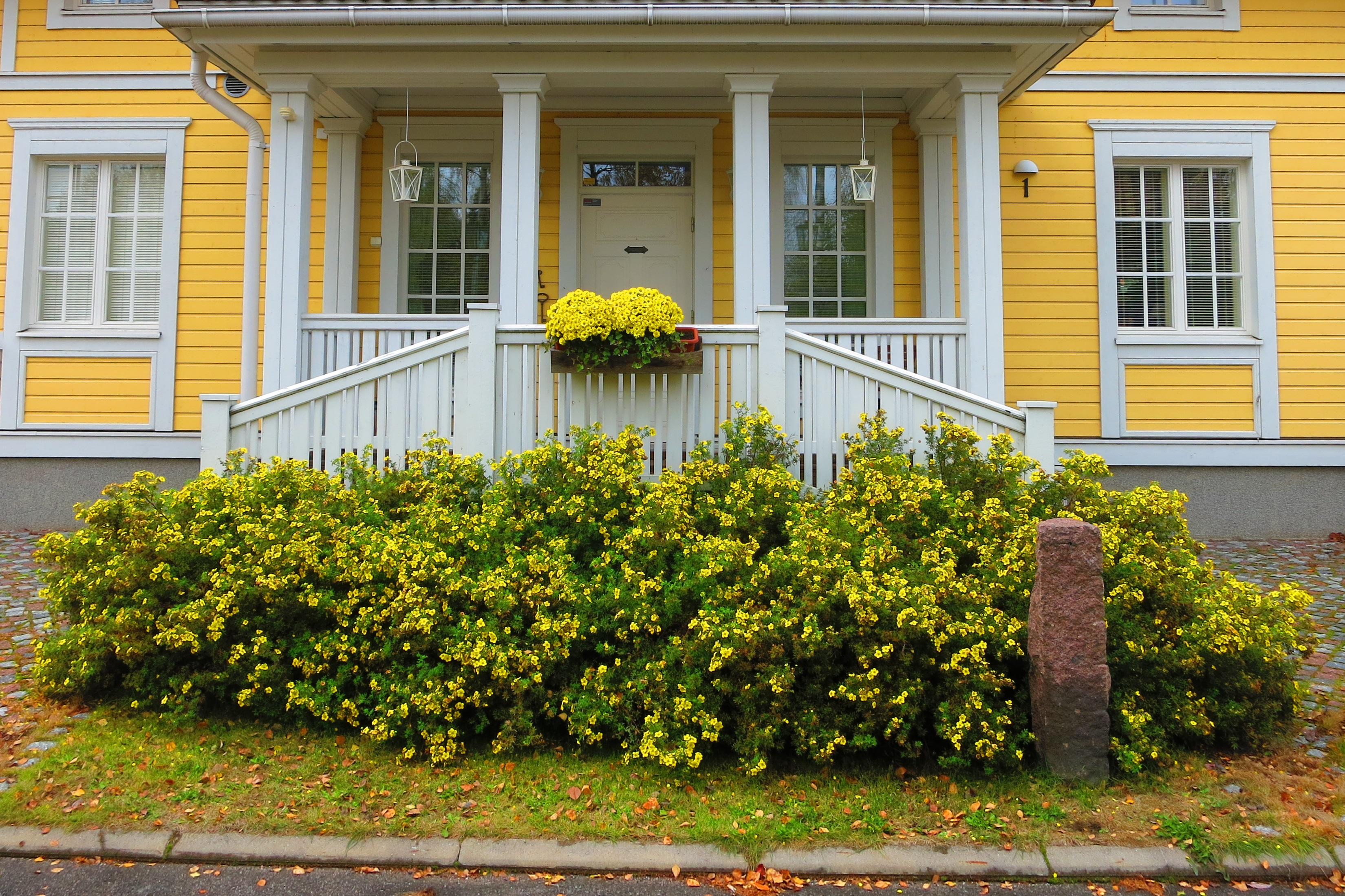 Potentilla fruticosa, Chrysanthemum sp. and yellow house (Hyvinkää, Finland)